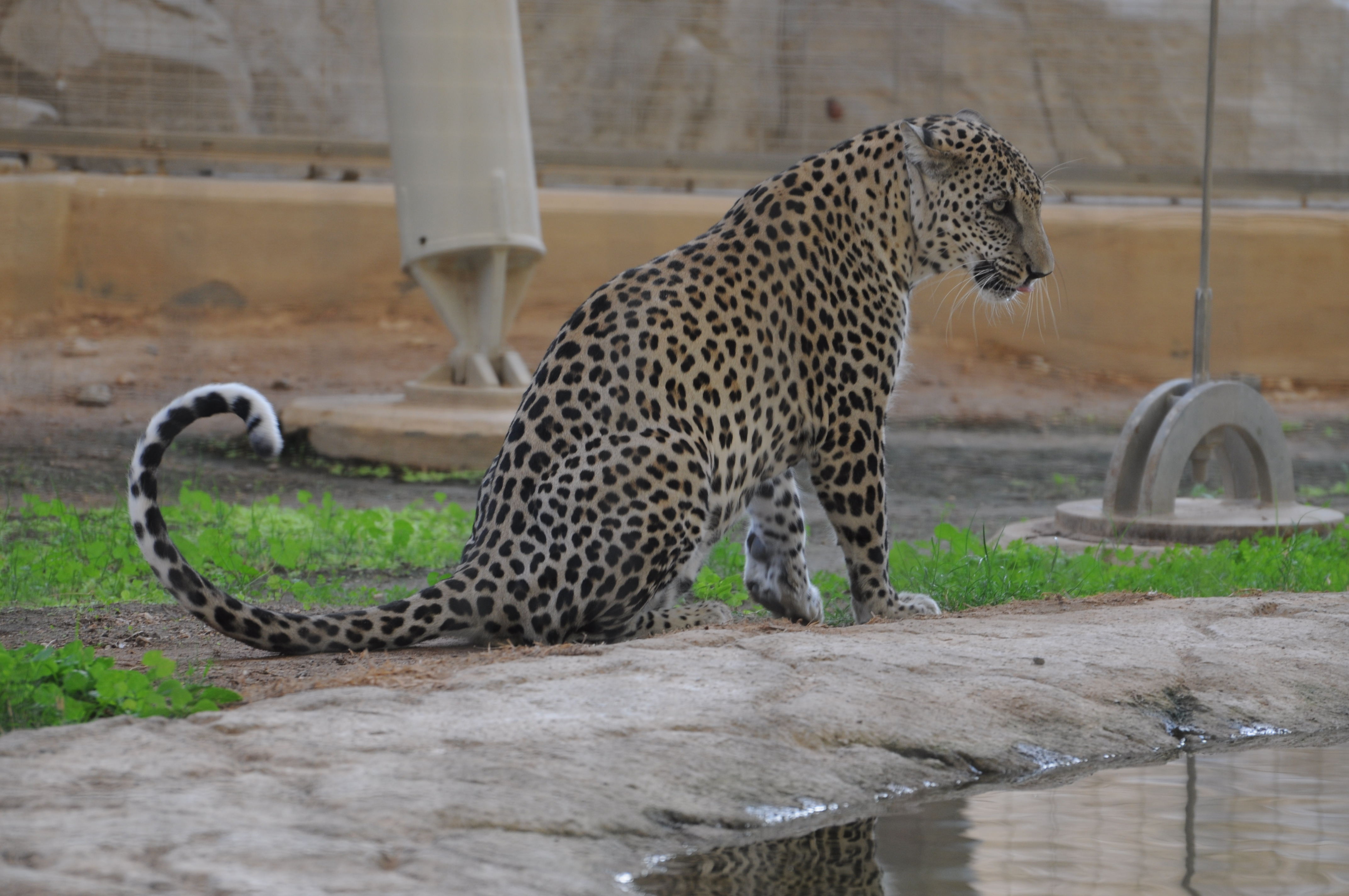 Love the sleek and streamlined lines of the Arabian Leopard! A nice view, pity about the man made structrues in the background! Oh well! The Arabian leopard was tentatively affirmed as a distinct subspecies by genetic analysis from a single captive leopard from Israel of south Arabian origin, which appeared most closely related to the African leopard. (Al Ain, UAE, Dec. 2012)